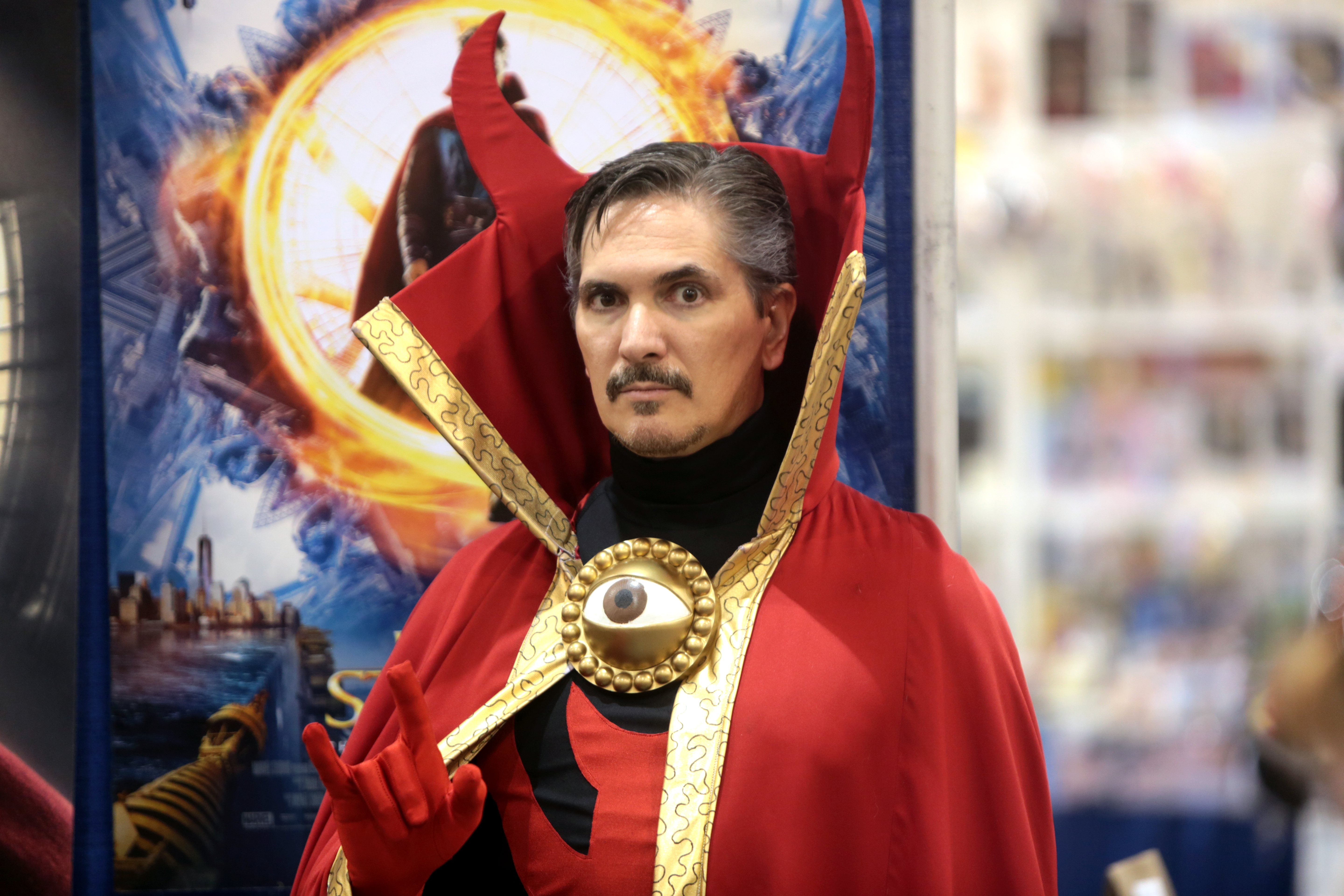 Doctor Strange cosplayer at the 2016 Phoenix Comicon Fan Fest at the Phoenix Convention Center in Phoenix, Arizona.